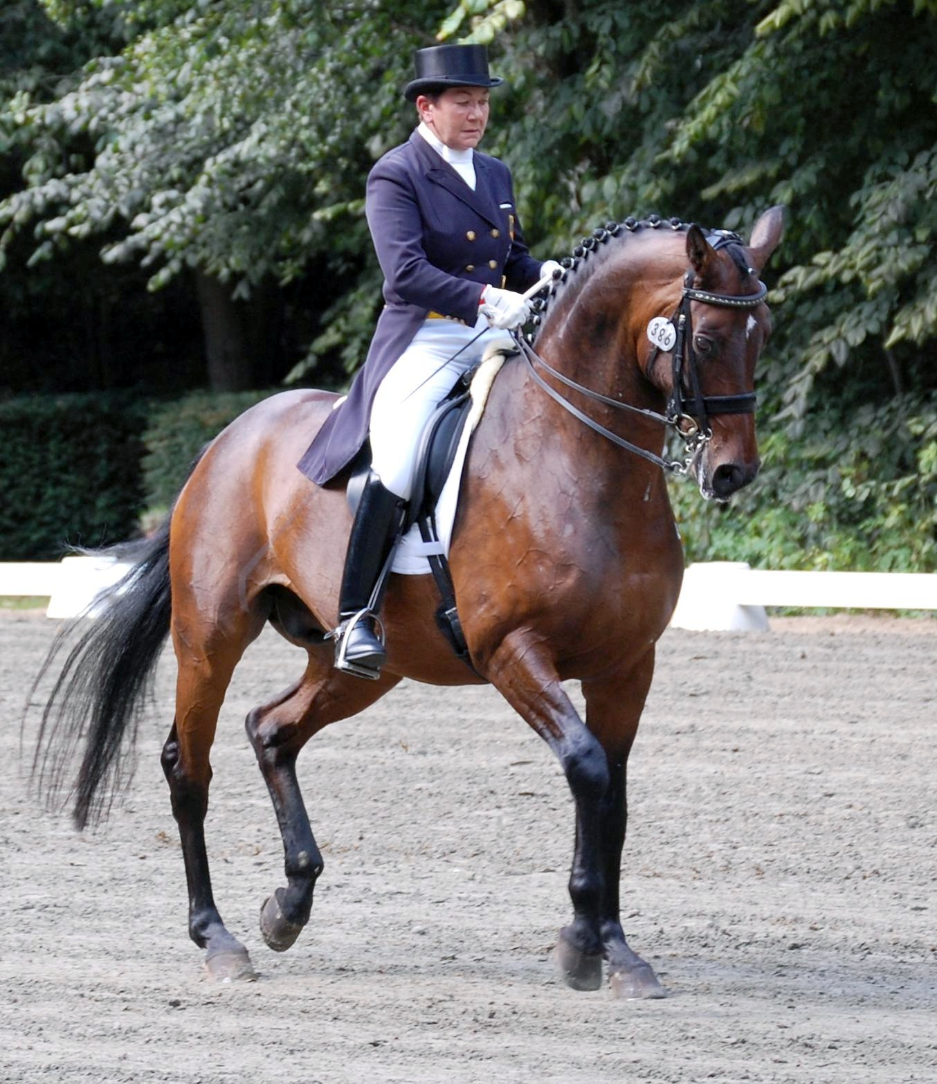 German dressage rider Karin Rehbein with World Idol. Landesturnier Schleswig-Holstein / Hamburg (state championship of Schleswig-Holstein and Hamburg in Bad Segeberg, September 2011